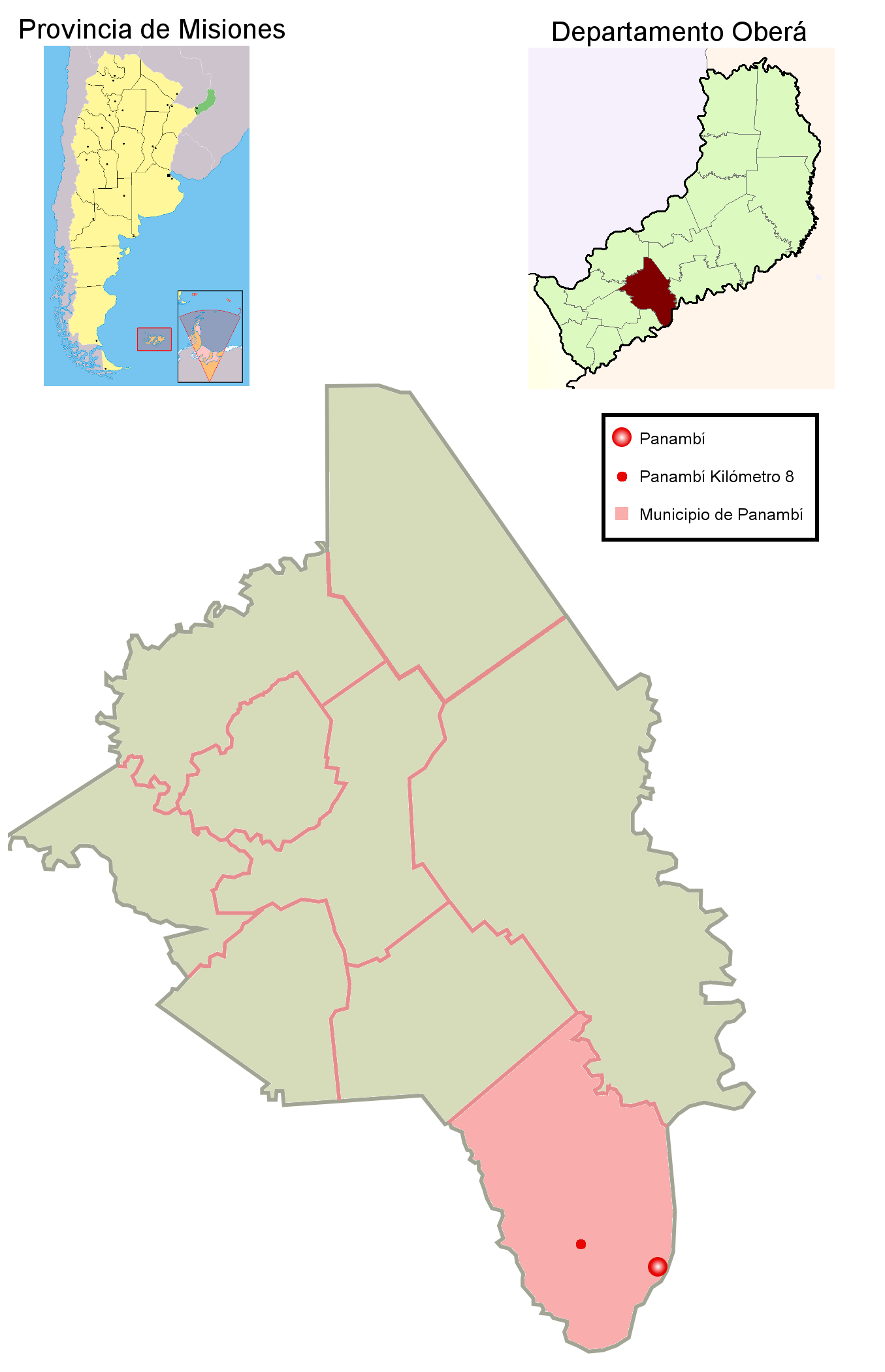 A map showing municipio of Panambí in Oberá departament, Misiones province, Argentina. Also shows Panambí town location and Panambí Kilómetro 8 town location. Created with GIMP.